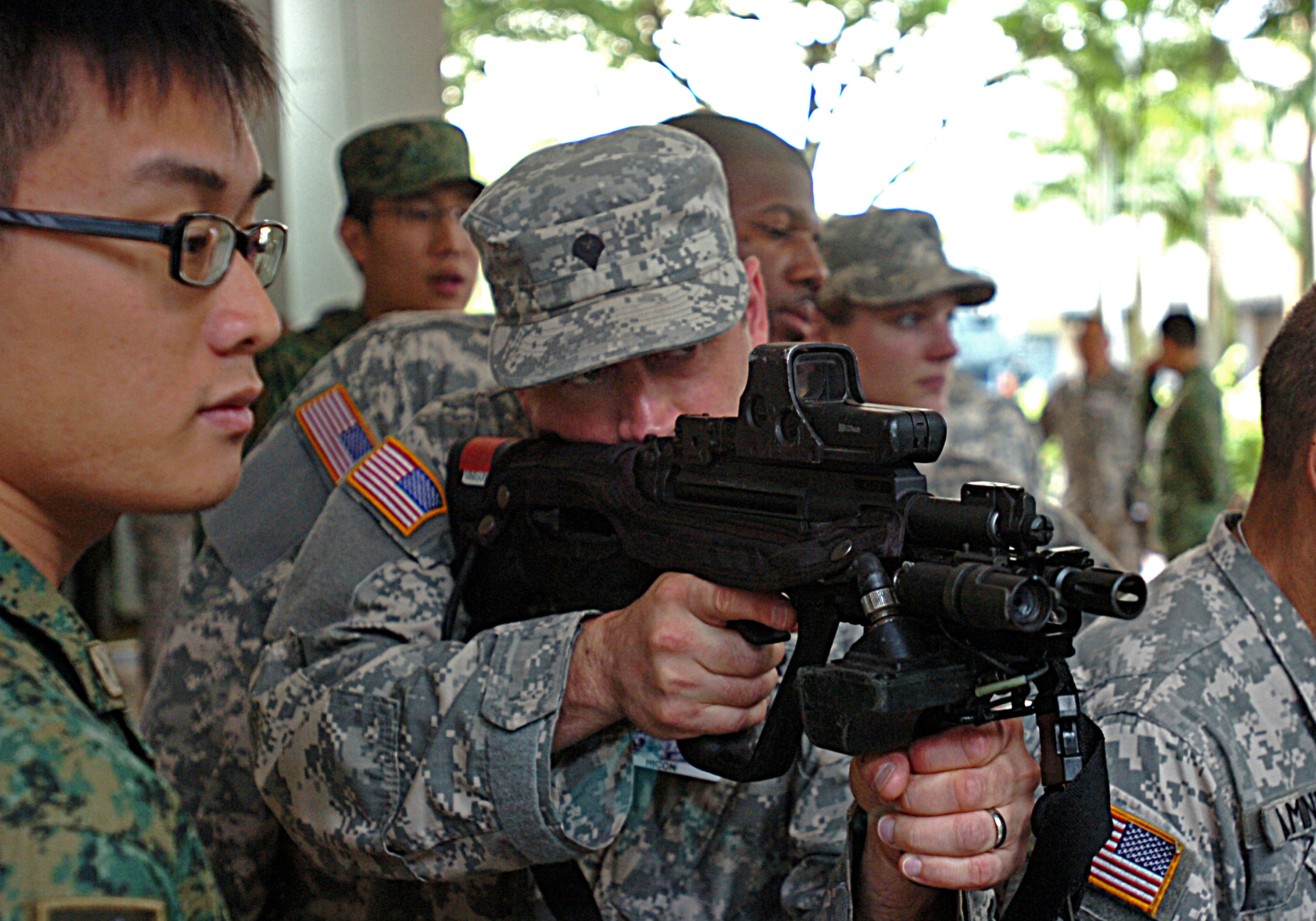 Spc. Rob Malcolm, intelligence analyst for 82nd Rear Operations Center, Oregon Army National Guard, takes aim with the Singaporean army SAR-21 rifle in Singapore, July 11. Malcolm, of West Linn, Ore., is a member of Operation Tiger Balm 09, a coalition training exercise between the Singapore army, and citizen-soldiers and citizen-airmen from Oregon, Hawaii, Utah and Arizona.